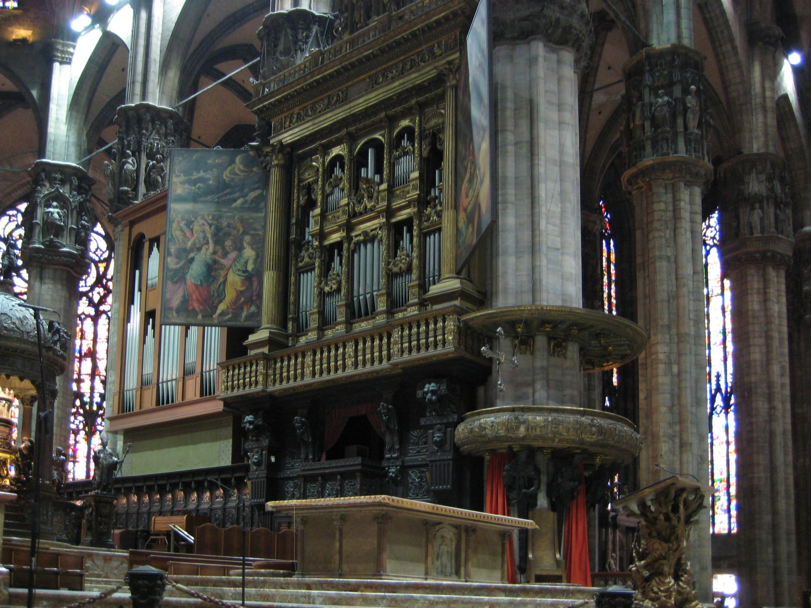 Interior of the Milan Cathedral, presbytery